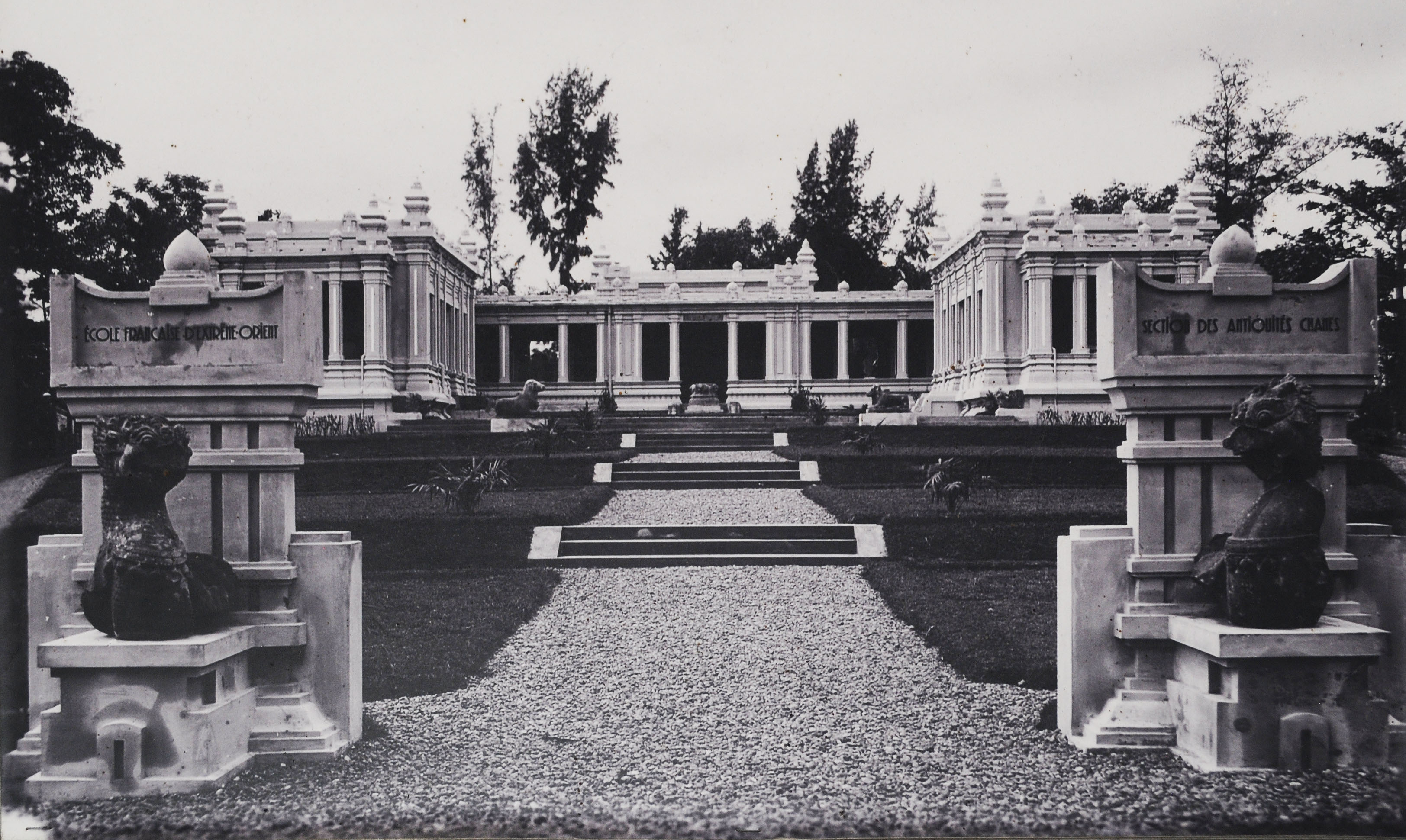 Early view of the Cham Sculpture Museum in Da Nang showing the École française d'Extrême-Orient (EFEO) at the left panel and "Section des Antiquités chames" (meaning Chams antics section) on the right panel.